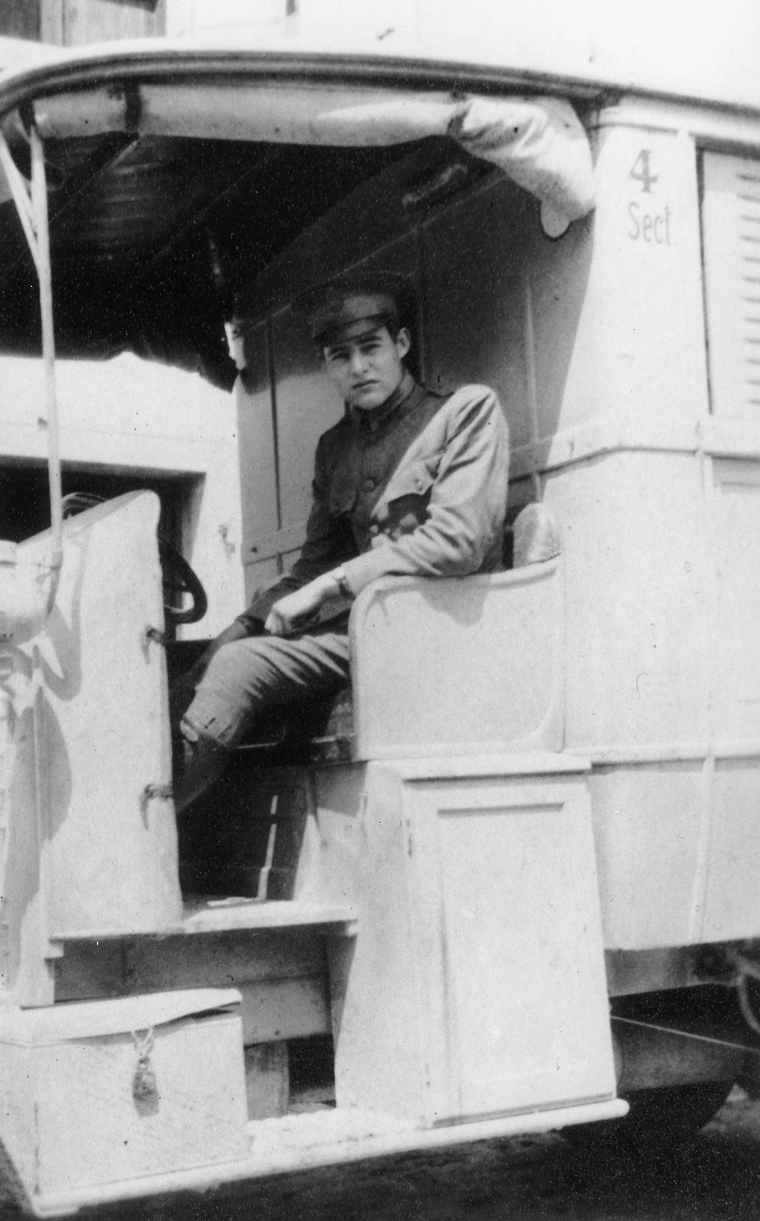 Hemingway in an American Red Cross Ambulance in Italy, 1918